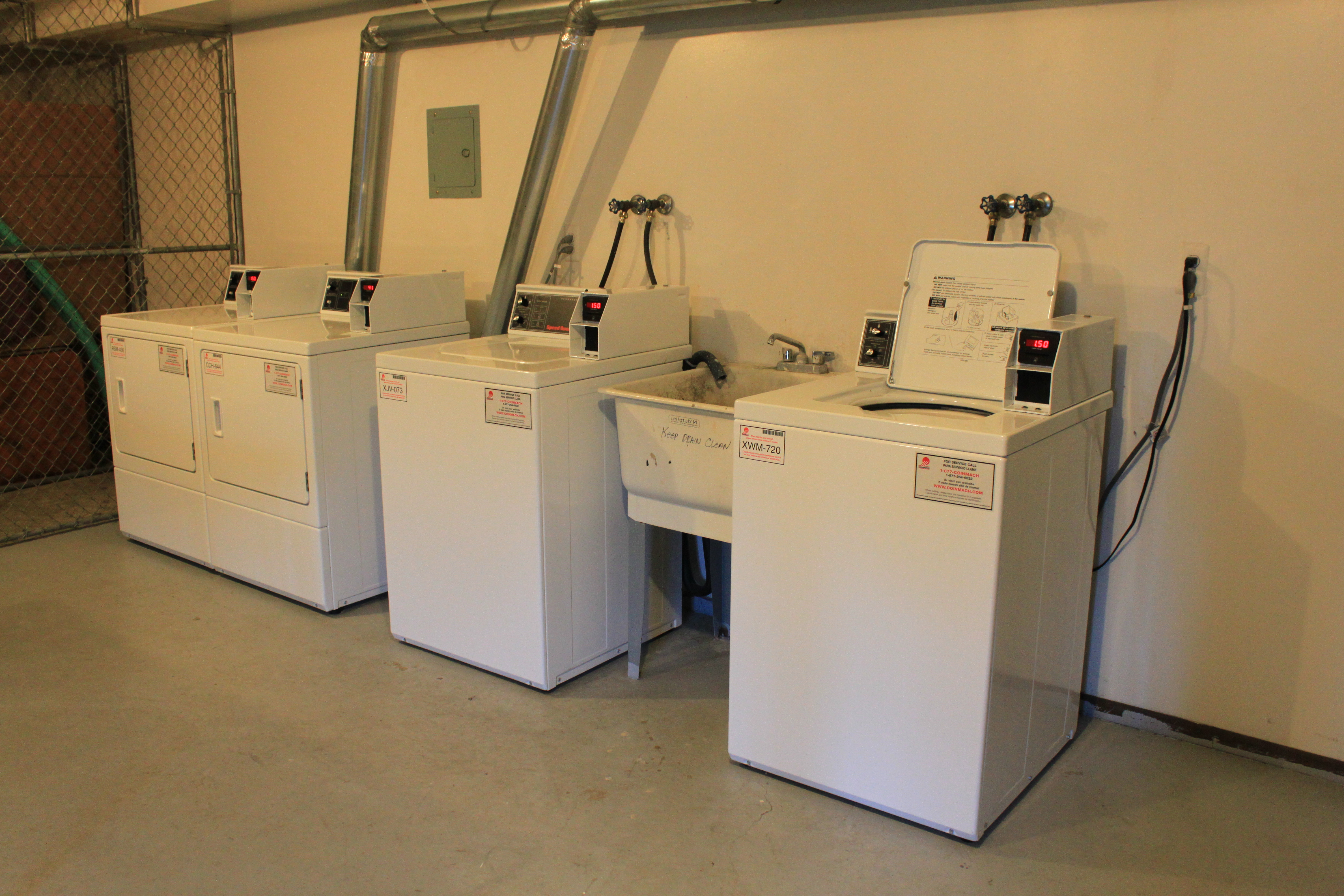 Speed Queen commercial washers and dryers operated with a reloadable cash card, Fairway Trails Apartments, Ypsilanti Township, Michigan